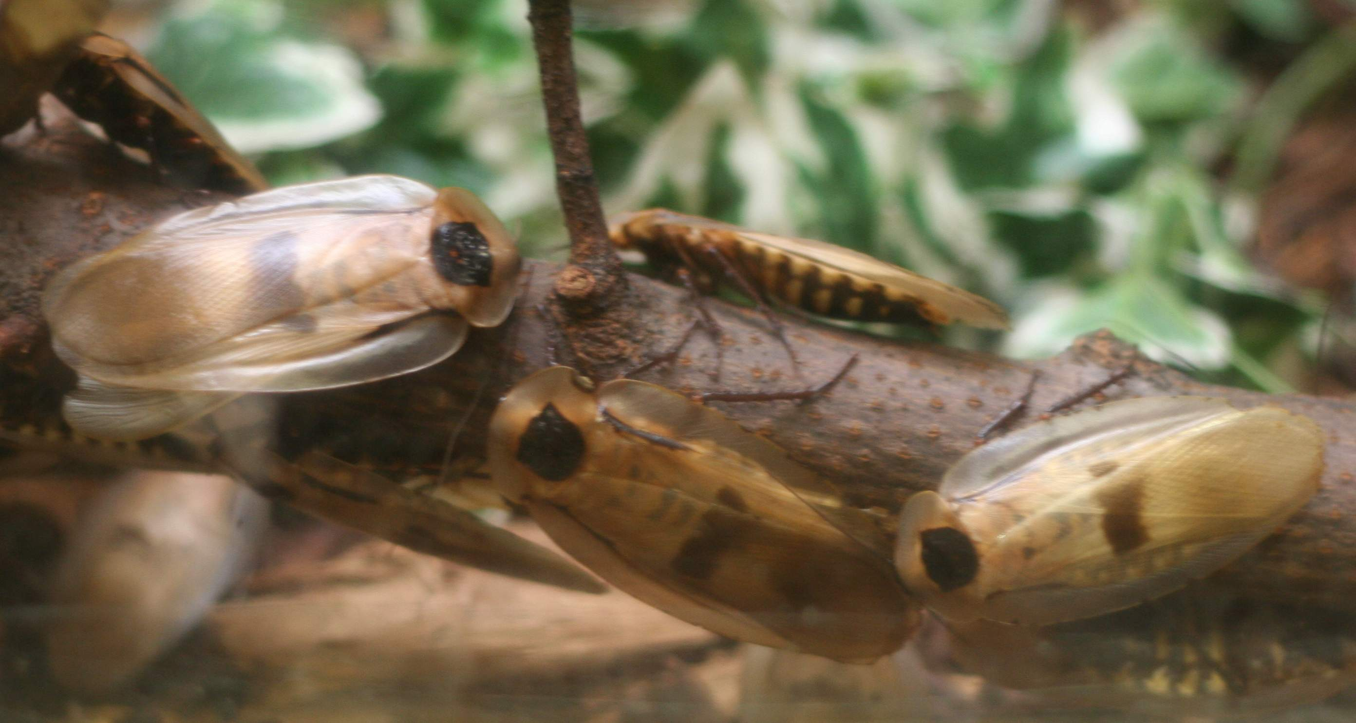 Giant cockroaches (Blaberus giganteus) at the Buffalo Zoo